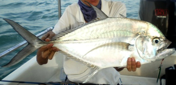 Cale cale trevally from Darwin, NT